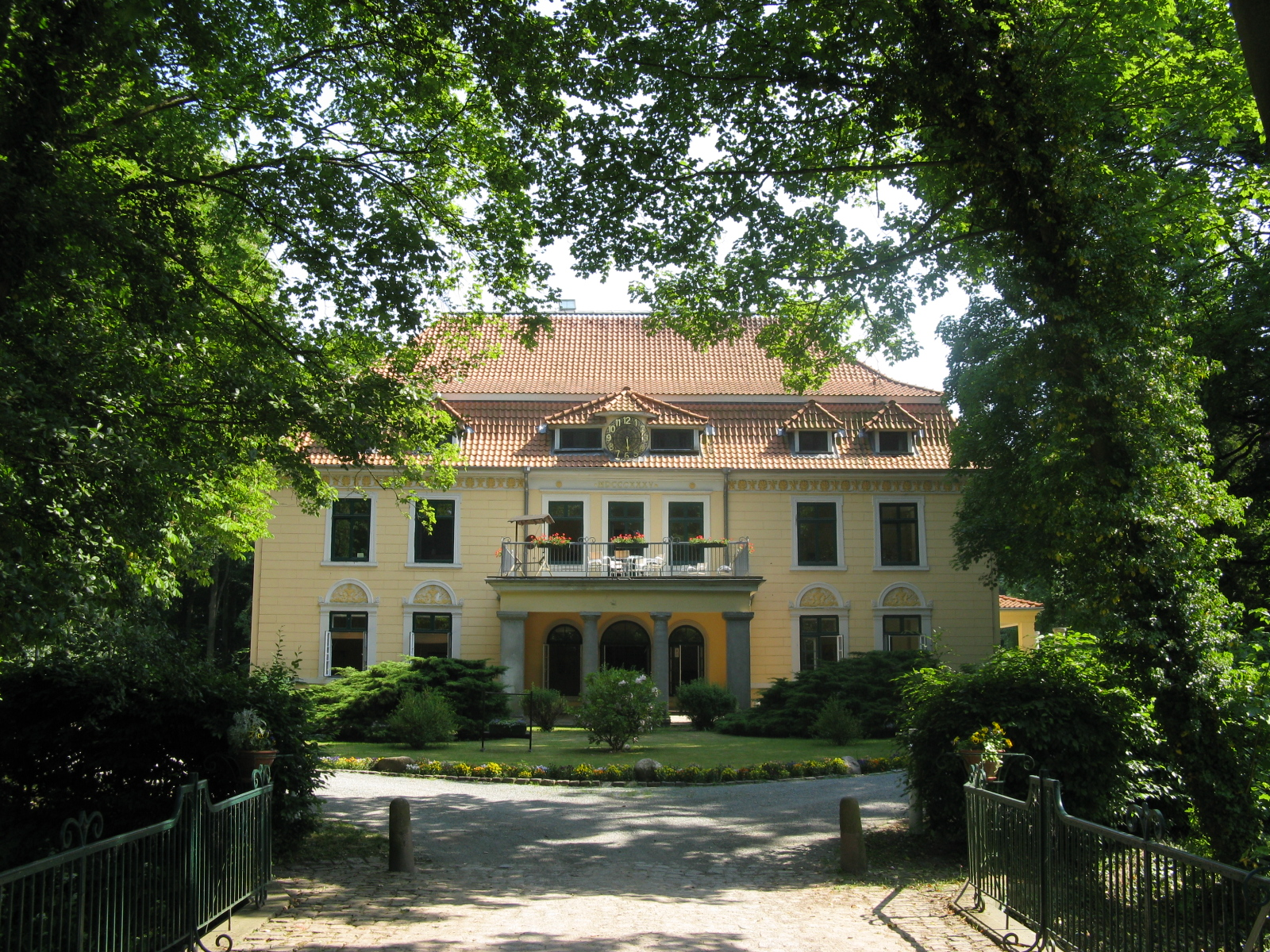 Manor house in Tessin (Wittendörp), district Ludwigslust-Parchim, Mecklenburg-Vorpommern, Germany